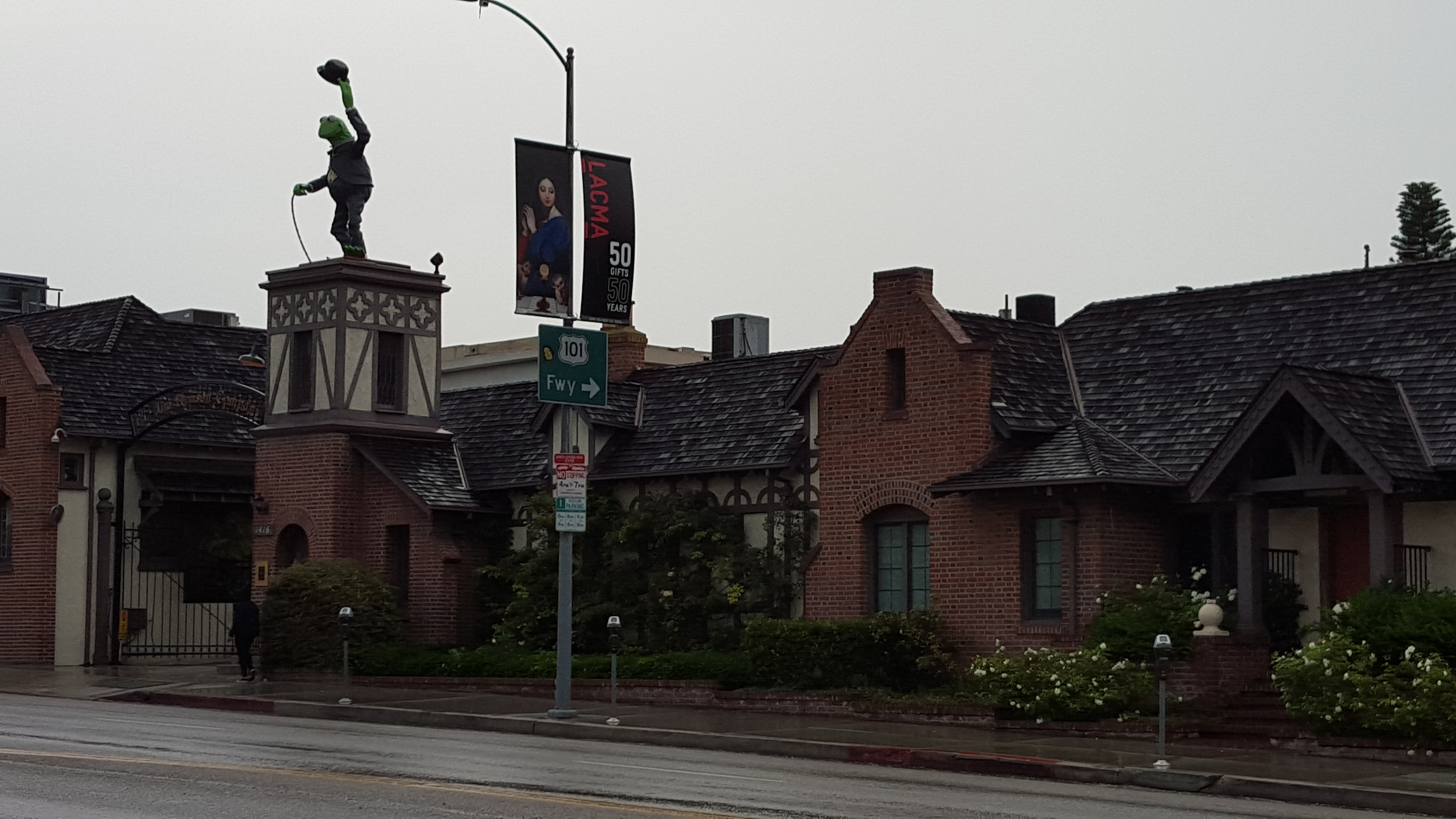 Charlie Chaplain-Henson Studios Main Gate 2015